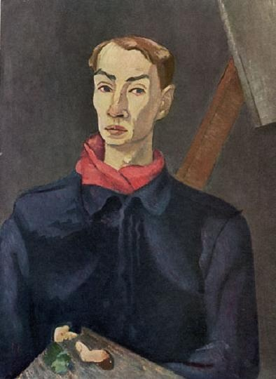 Zelfportret